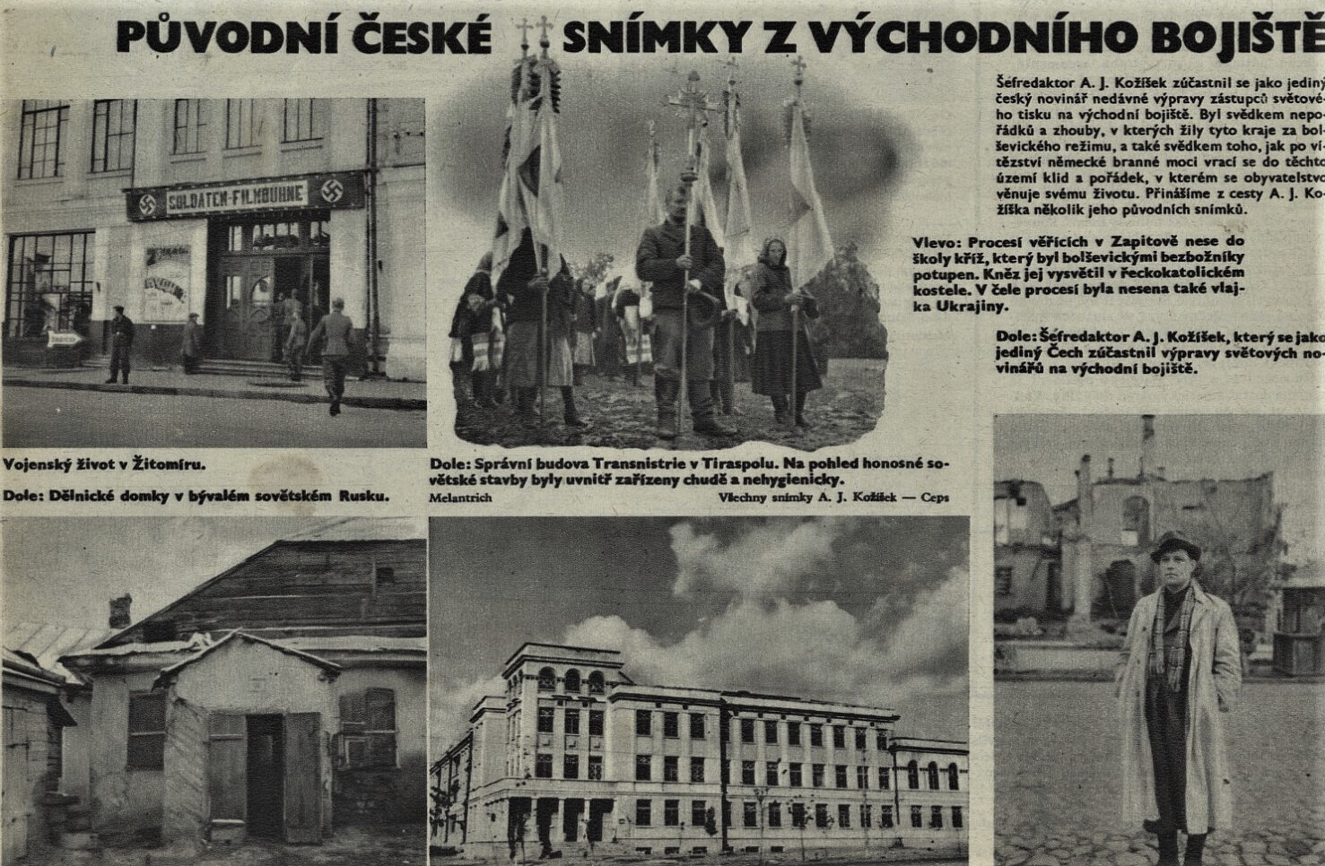 Antonín J Kožíšek, Czech journalist 1905-1947, on the Eastern Front 1941